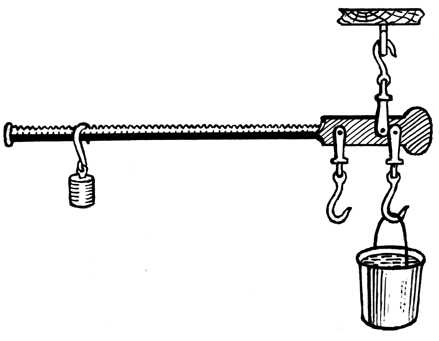 Line art representation of a Steelyard